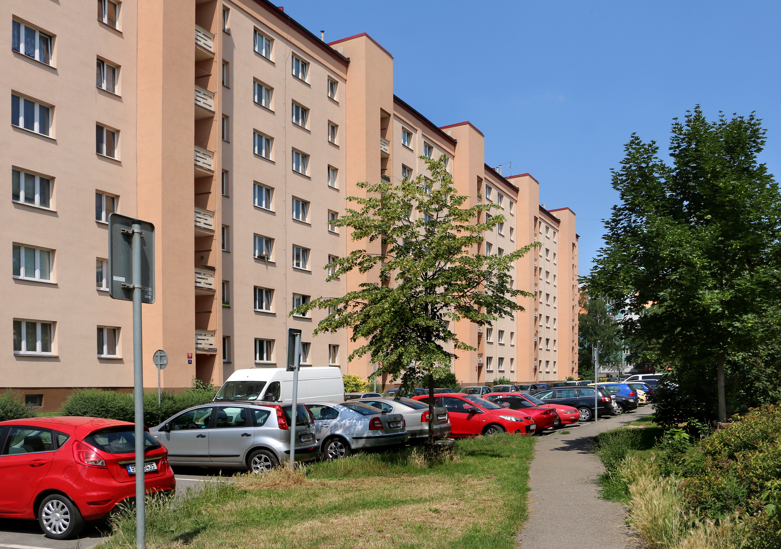 Přistoupimská street, Prague.